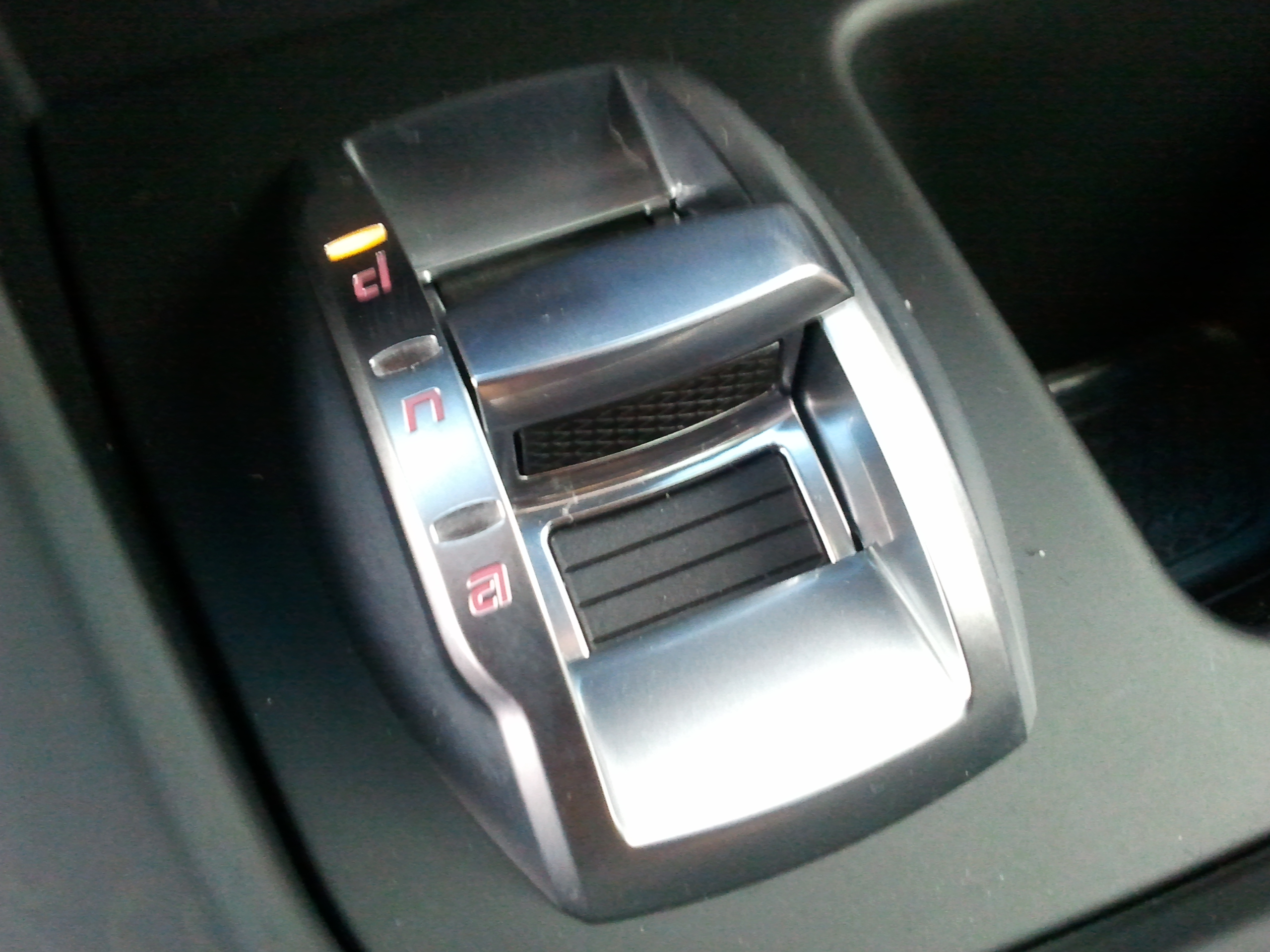 Manettino Dynamic